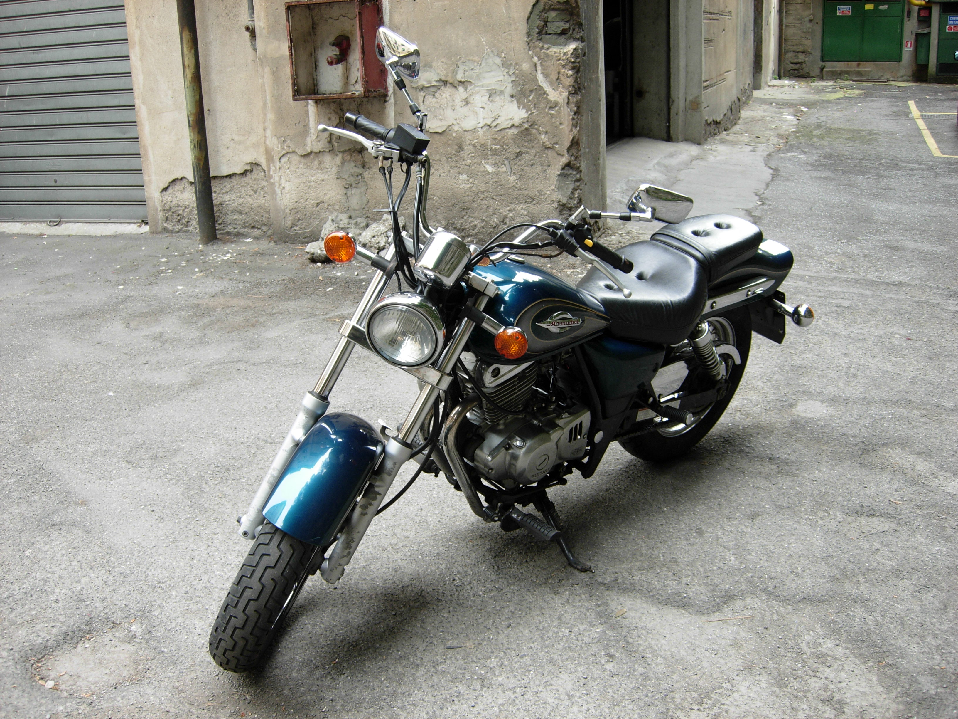 Suzuki GZ Marauder 250 (year 2000)